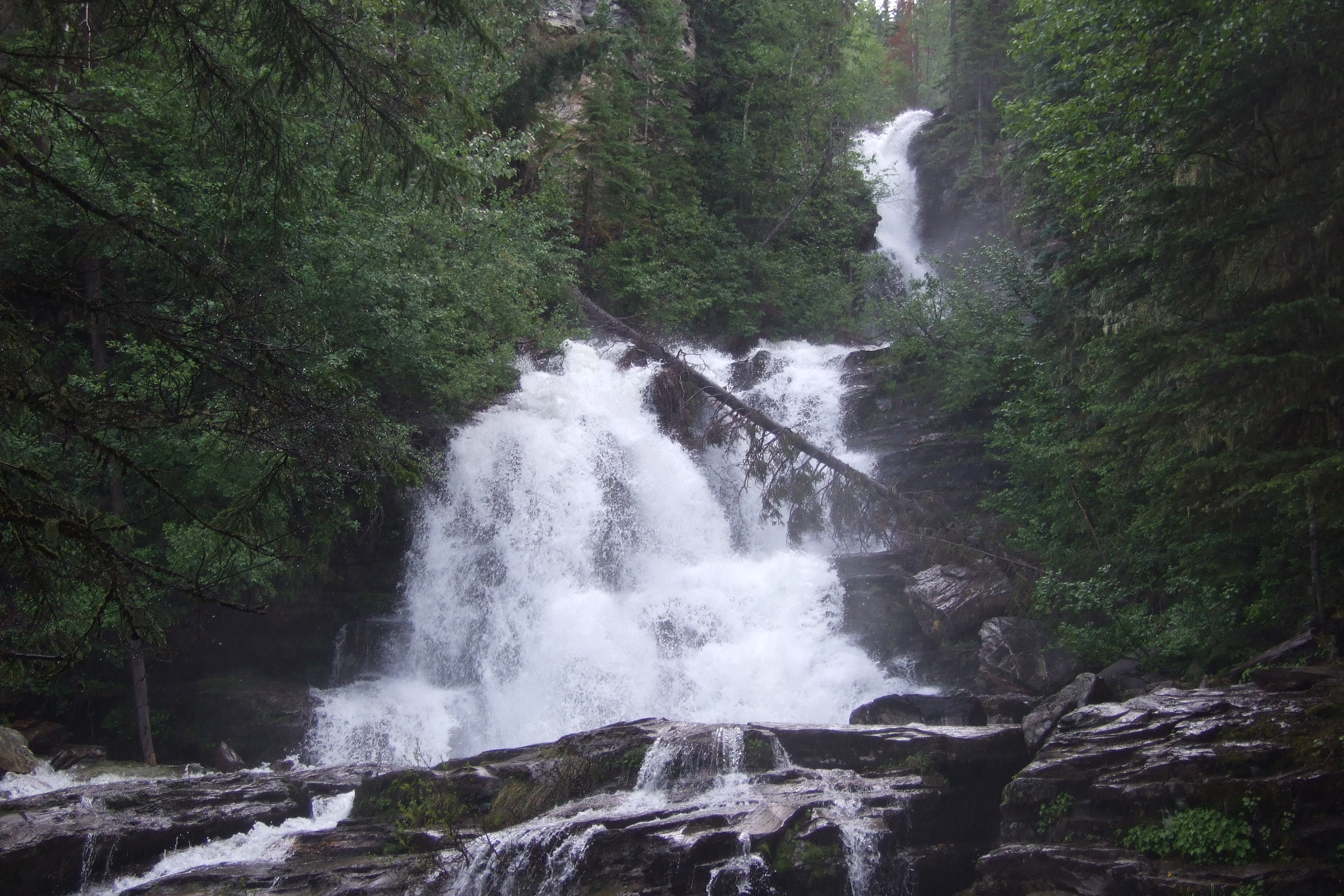 Photo of Bijoux falls waterfall